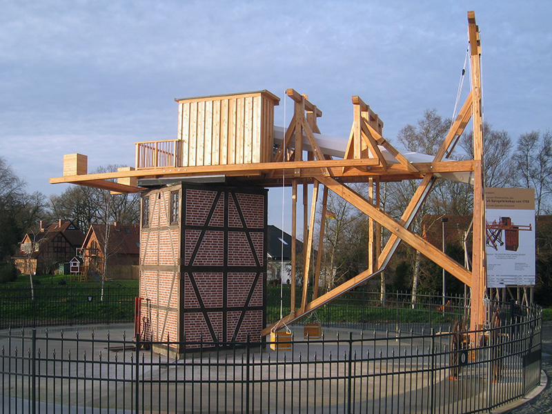 Replica of the Newtonian telescope built by Johann Hieronymus Schroeter (1745–1816) in Lilienthal, Germany. The structure from the year 2015 was built according to the technical descriptions by Schroeter from the year 1793. Mirror diameter: 50 cm / focal length: 8 meters.